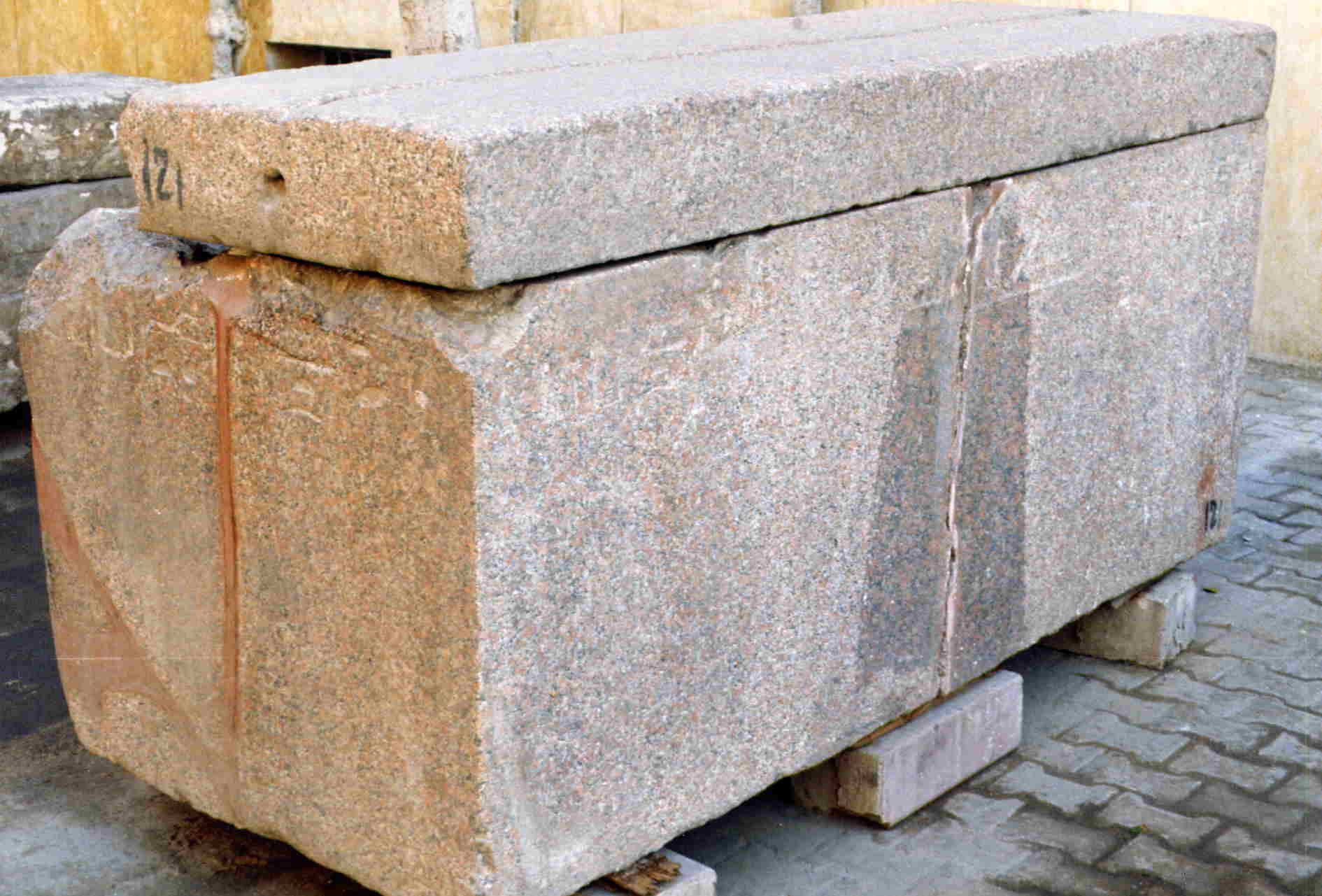 Depict a sarcophagus of Kawab, a royal prince of Egypt during the 4th dynasty in Egypte. It is placed in the Cairo Museum. Kawab was a son of Kheops.